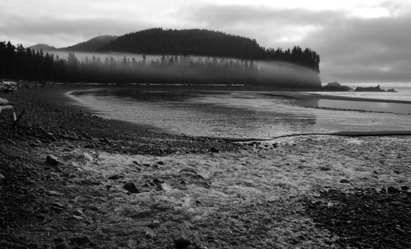 Erin McKittrick, Ground Truth Trekking, own work Category:Images of Alaska